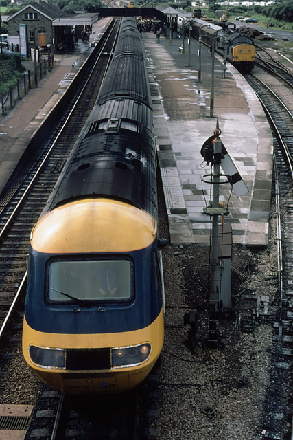 Par Station 43153 leading an HST service to Paddington waits for the 'Right Away' at Par. In the loop, a class 37 waits with a mixed freight - two ferry vans and some china clay wagons. China clay mining is the principal industry in the area and the china clay produced is used in paper, ceramics, paint, rubber, plastics, cosmetics, pharmaceuticals, cork and agricultural products.